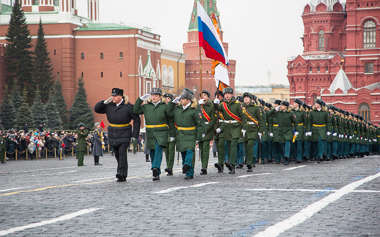 Solemn ceremony of the release of officers of the Moscow Higher Military Command School.